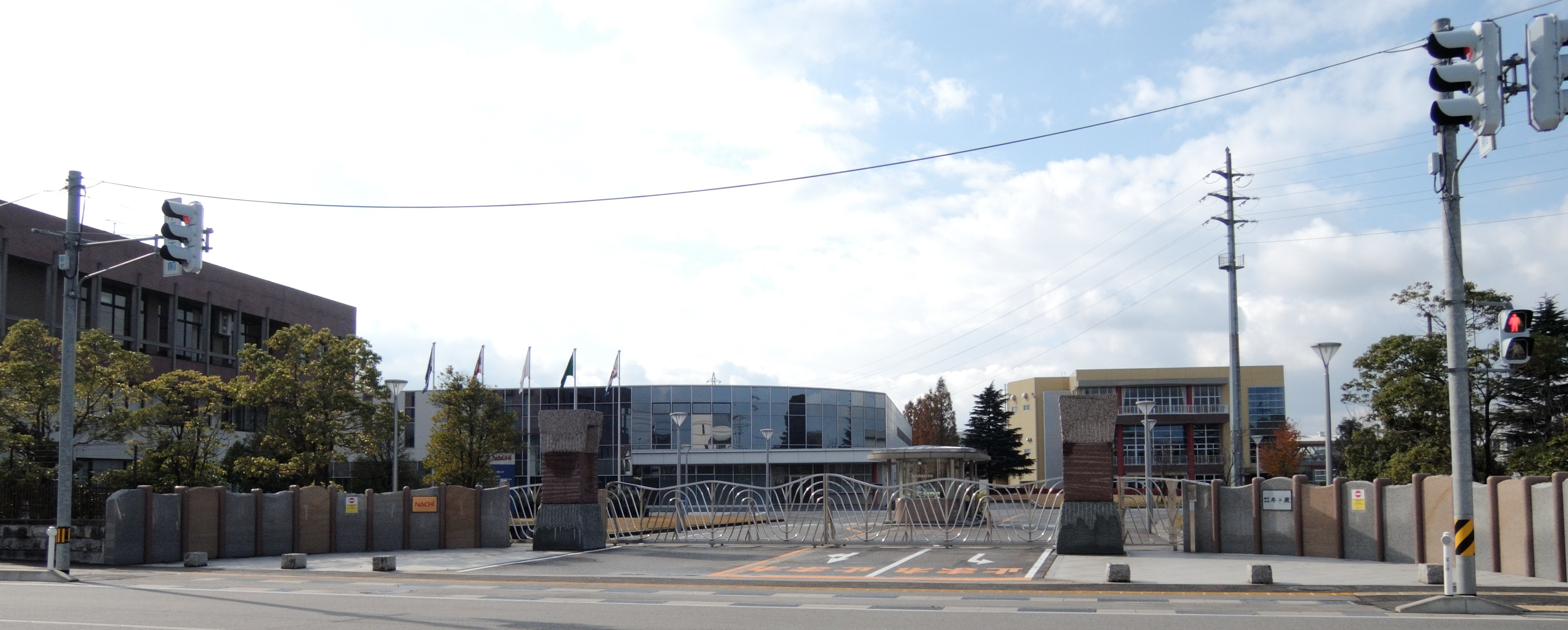 Headquarters of Nachi-Fujikoshi Corporation,Toyama prefecture,Japan